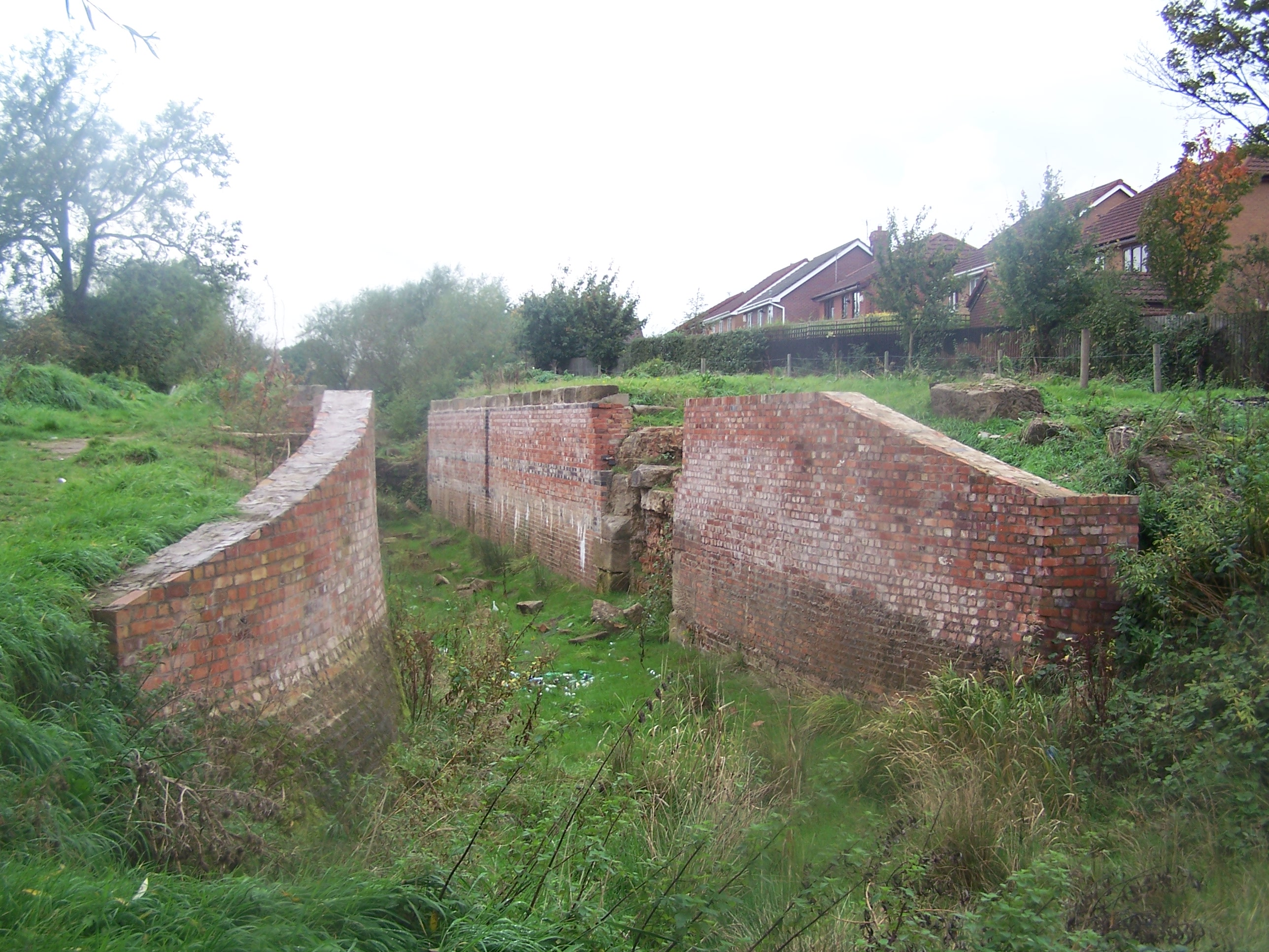 The Shacklecross Lock (Borrowash Bottom Lock) undergoing restoration in 2006.